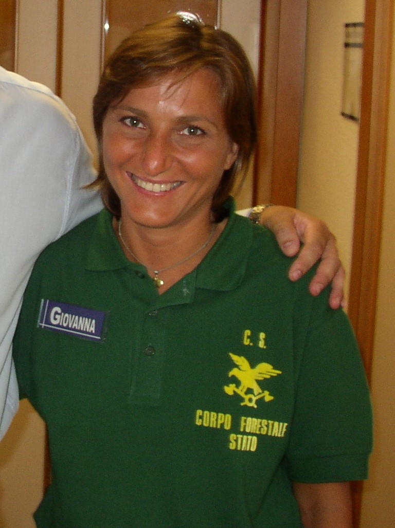 Fencer Giovanna Trillini in Milan in 2004